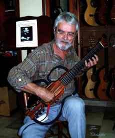 JM Mourat play a guitar Aria